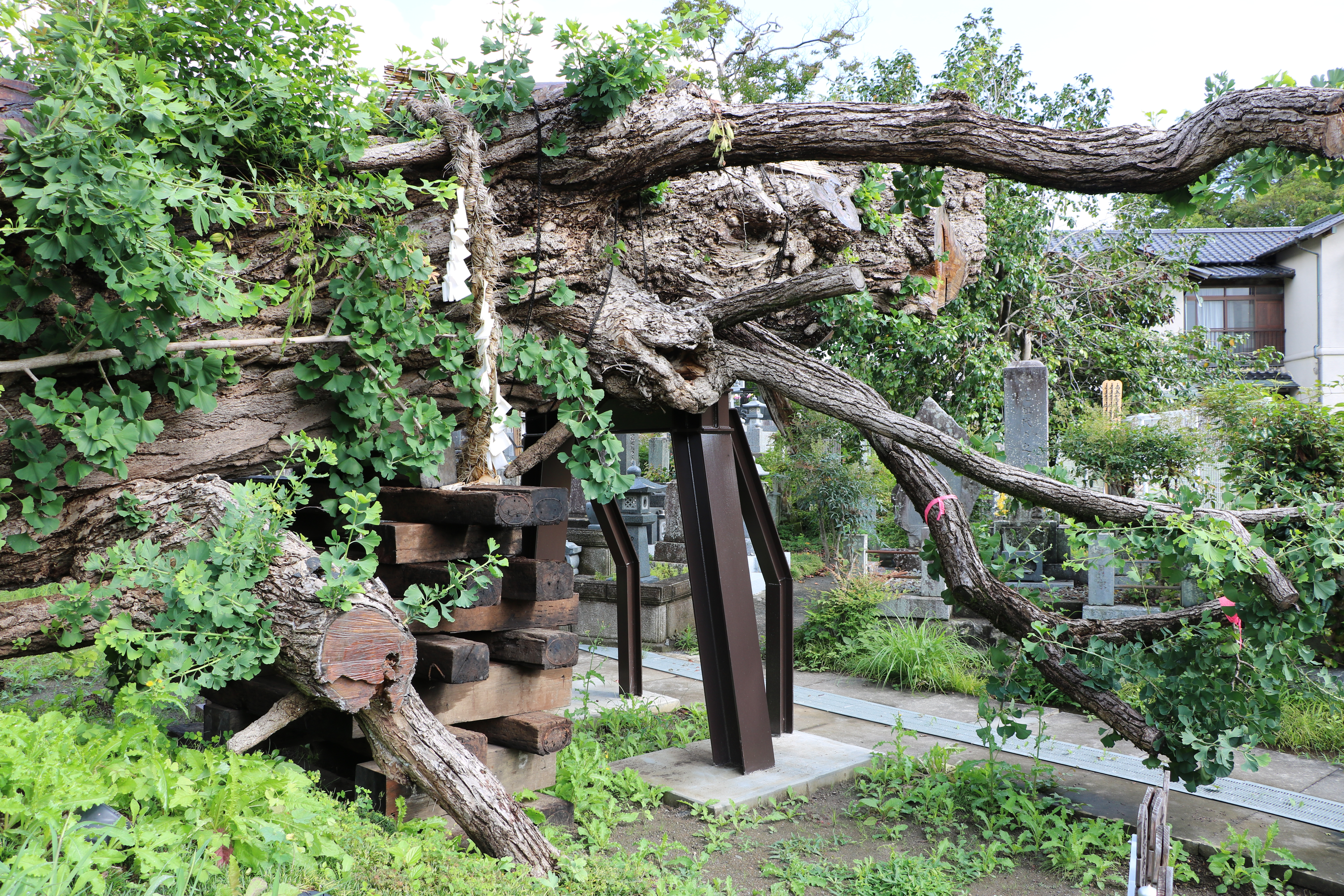 Jotakuji no Ohatsuki Icho